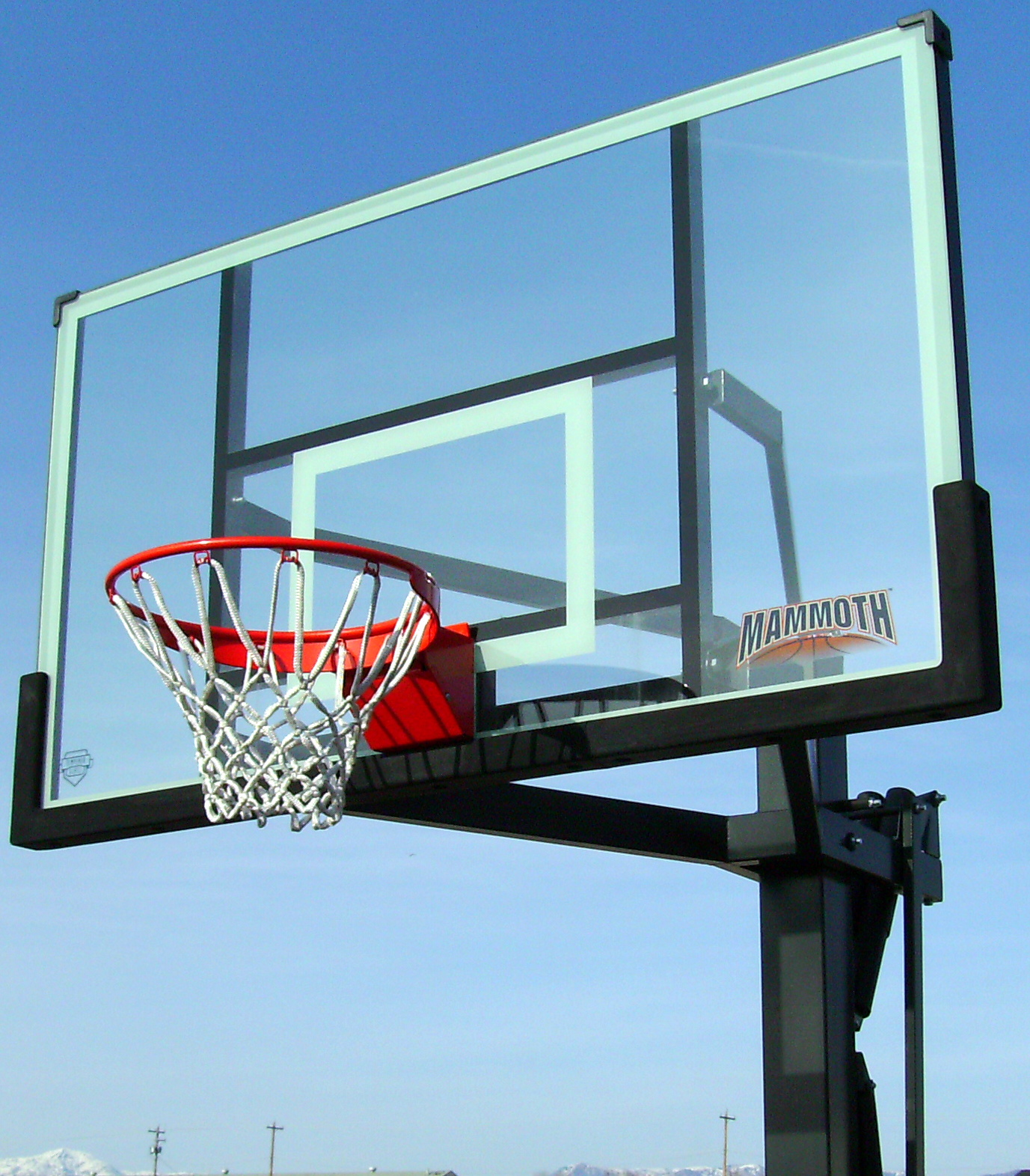 Mammoth Basketball hoop, basketball, Lifetime Products